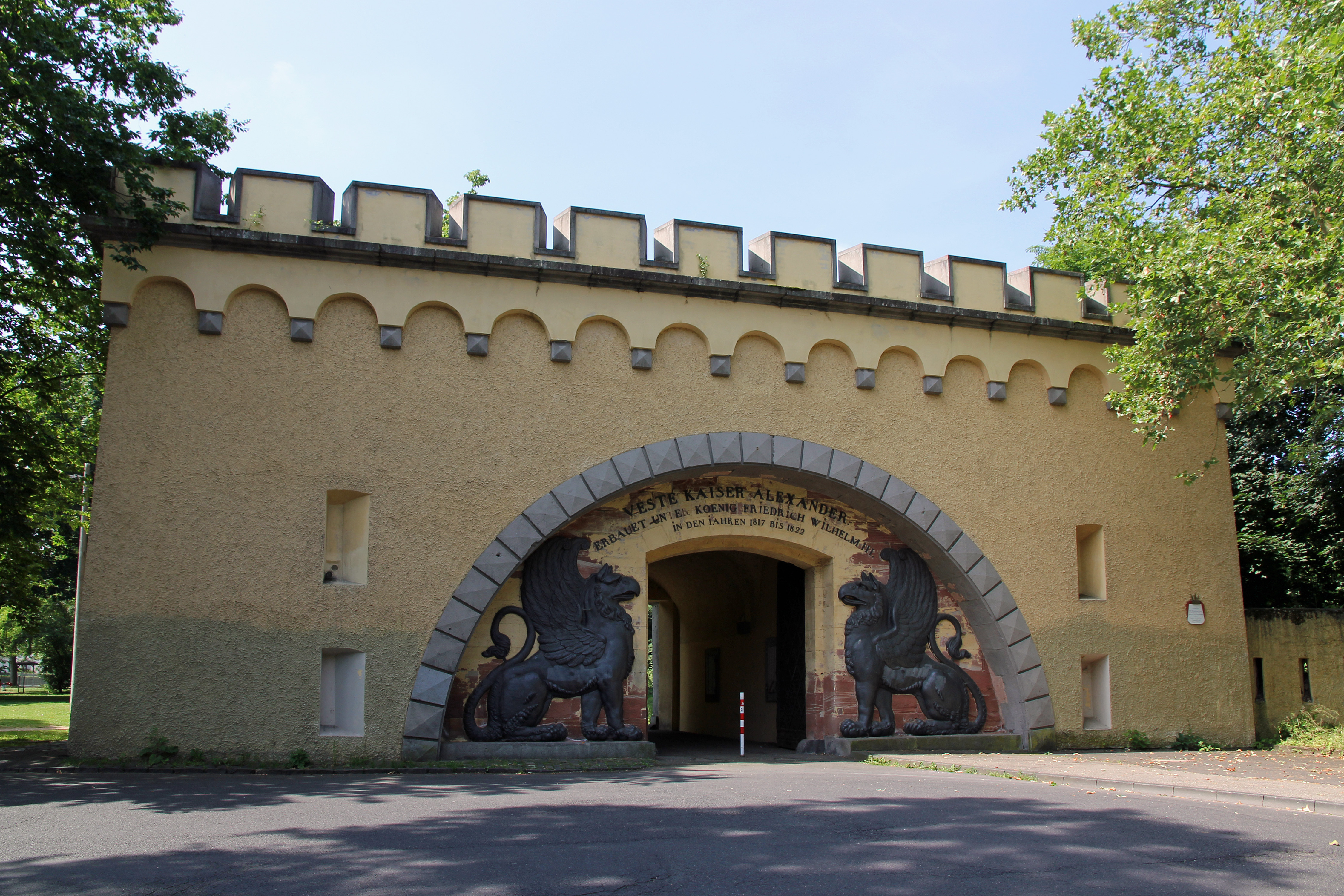 Loins Gate of Fortress Kaiser Alexander in Koblenz